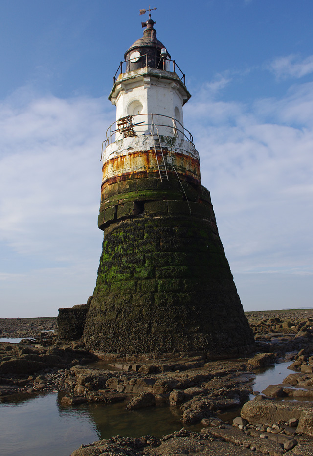 Plover Scar Lighthouse